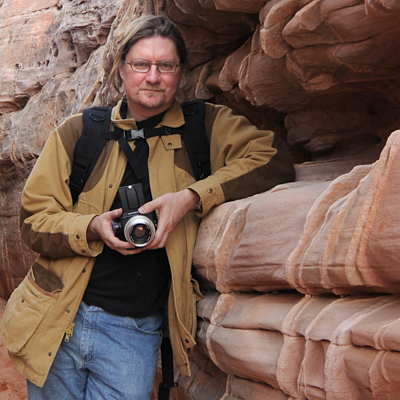 Kyle Cassidy in the Mojave desert